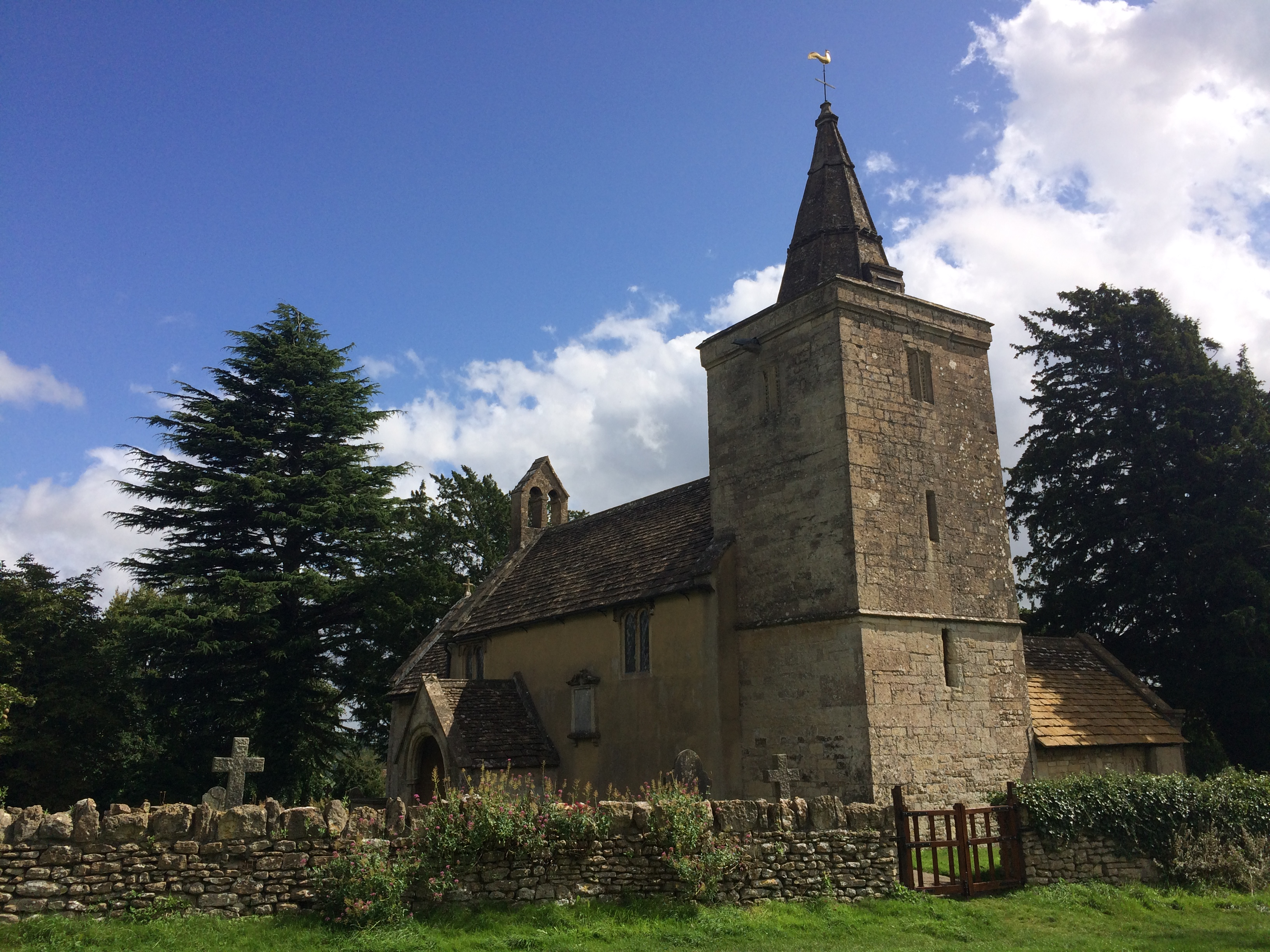 St Mary's parish church, Limpley Stoke, Wiltshire, England, seen from the norrthwest